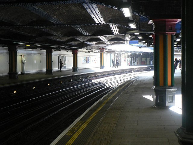 Bow: emerging from underground Looking along the platform at 863915, where the District Line energes from underneath the Capital for the last time on its eastbound journey towards Barking and Upminster.